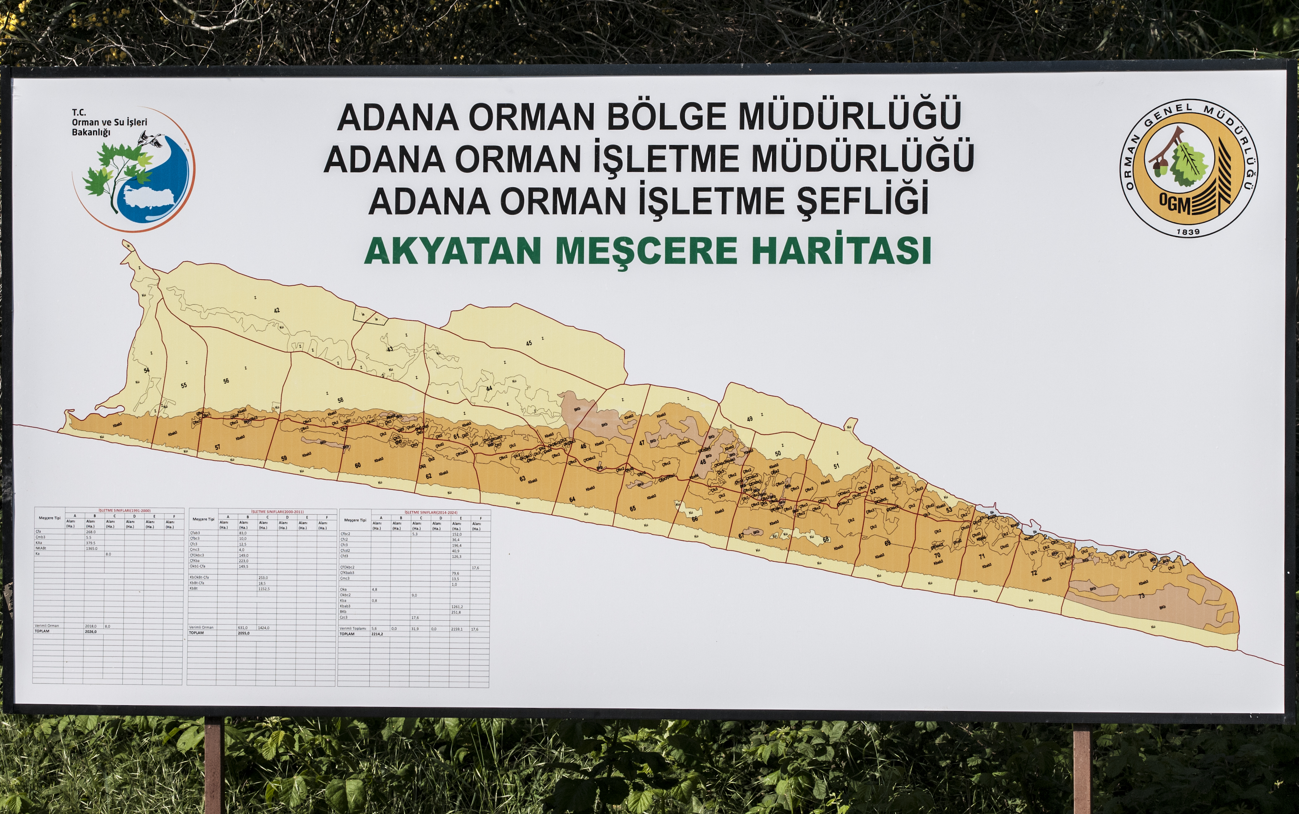 On-plate Map of Akyatan Forest, a planted forest for afforestration of the sand dunes between Akyatan Lagoon and Mediterranean Sea coastal zone in Karataş, Adana - Turkey.